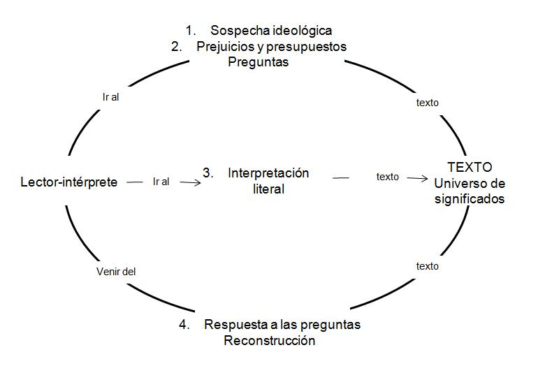 Círculo hermenéutico